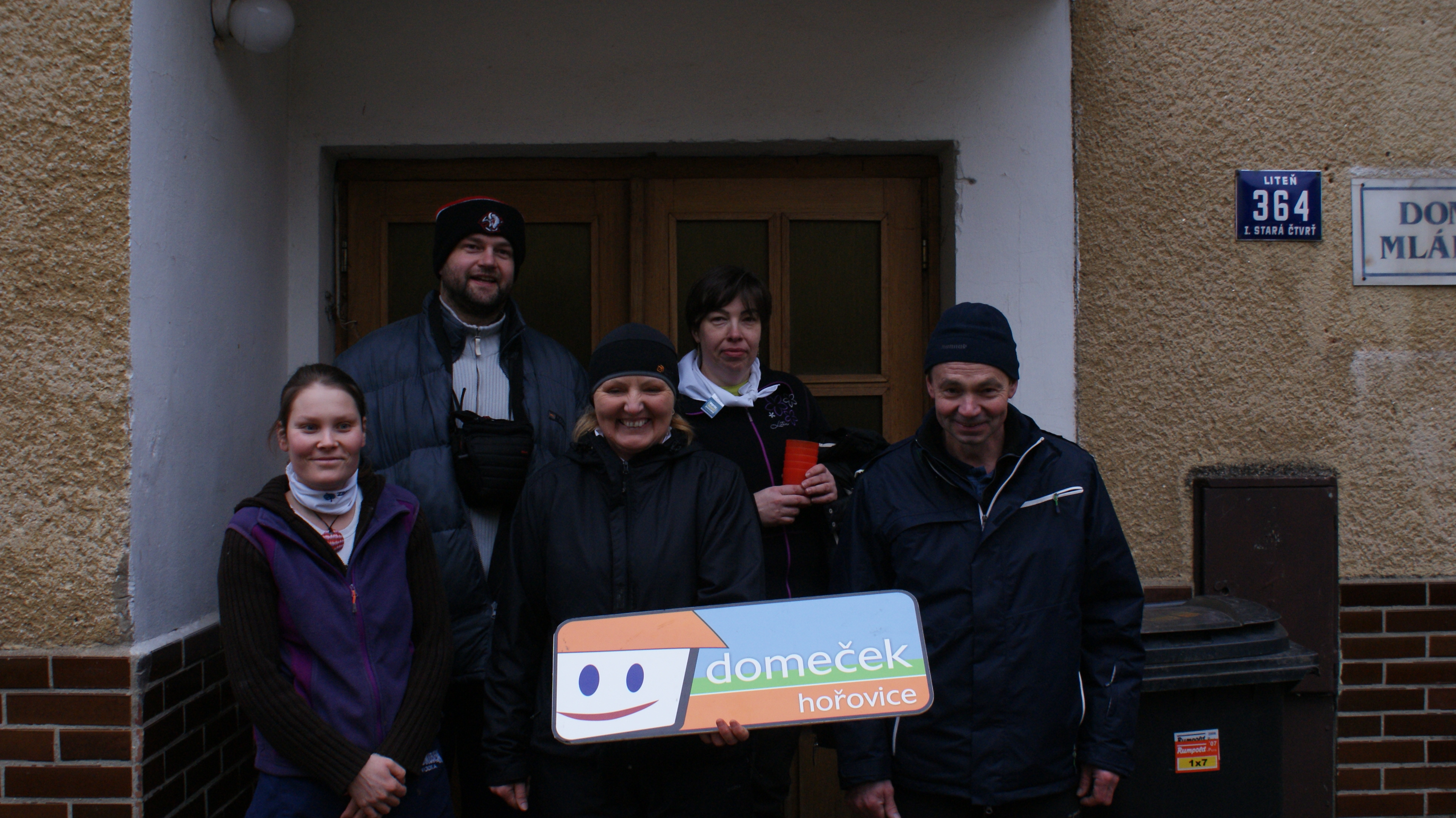 Liteň - running race